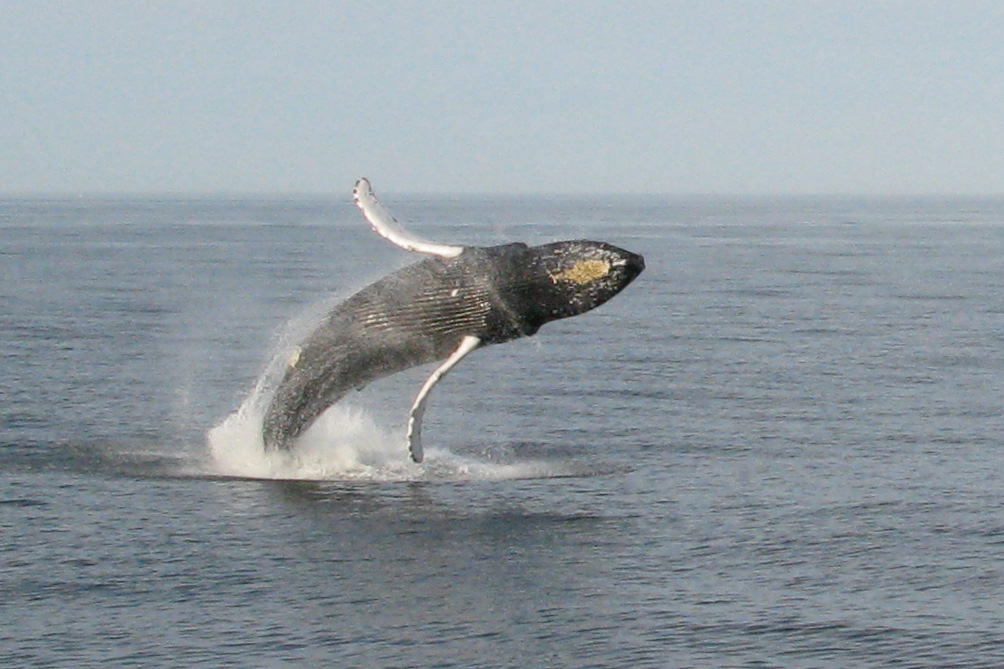 A humpback whale in Bar Harbor, Maine, USA.